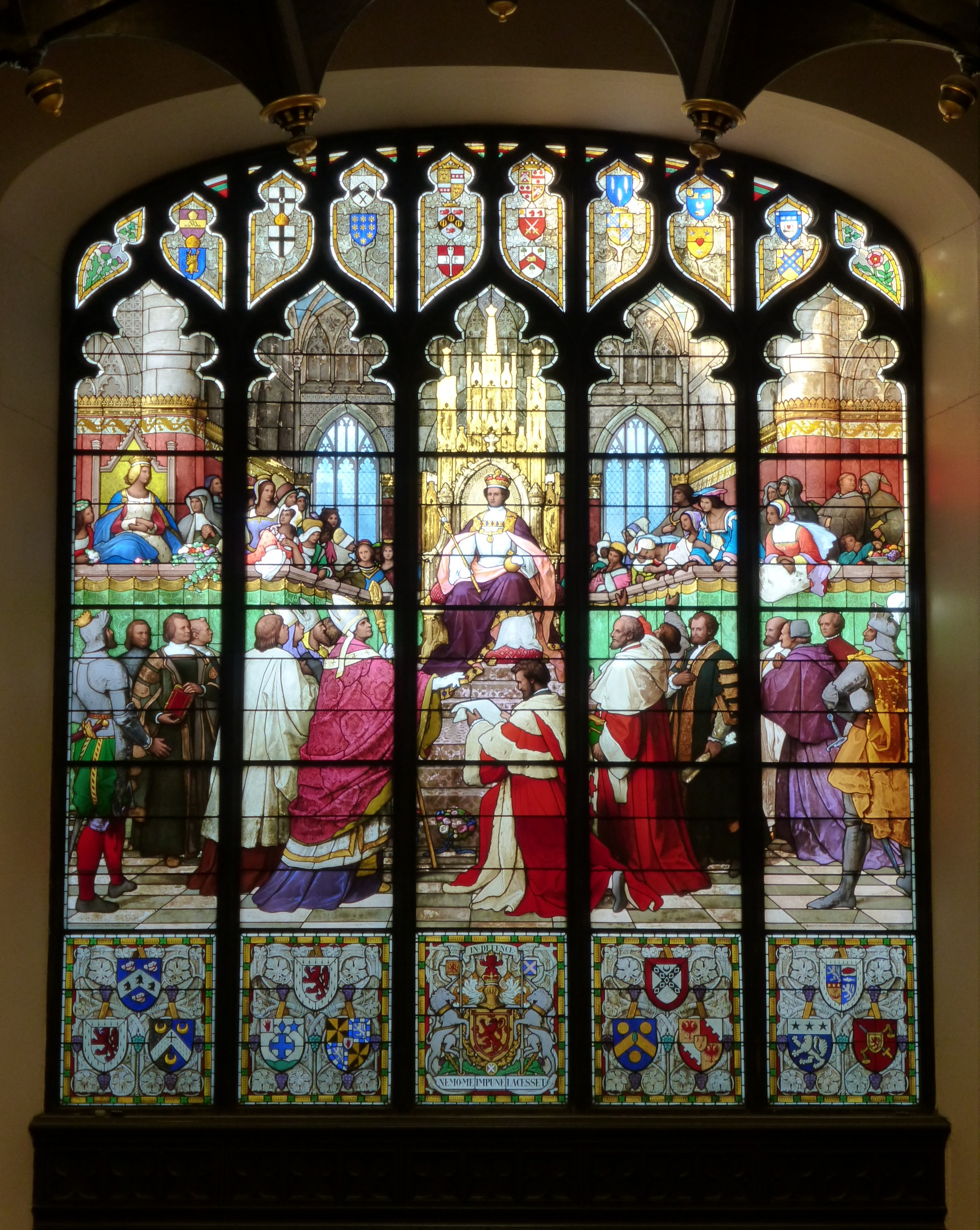 The Great Window, comprising 8,000 pieces of stained glass covering an area of 390 square feet, was installed in Parliament Hall in 1868. It depicts the founding of the College of Justice in 1532 and shows King James V presenting the Charter of Institution and Confirmation granted by Pope Clement VII to the first Lord President. On the right of James sits his mother Queen Margaret, widow of King James IV. The glass was designed by Wilhelm von Kaulbach and executed by Maximilian Ainmiller of Munich.